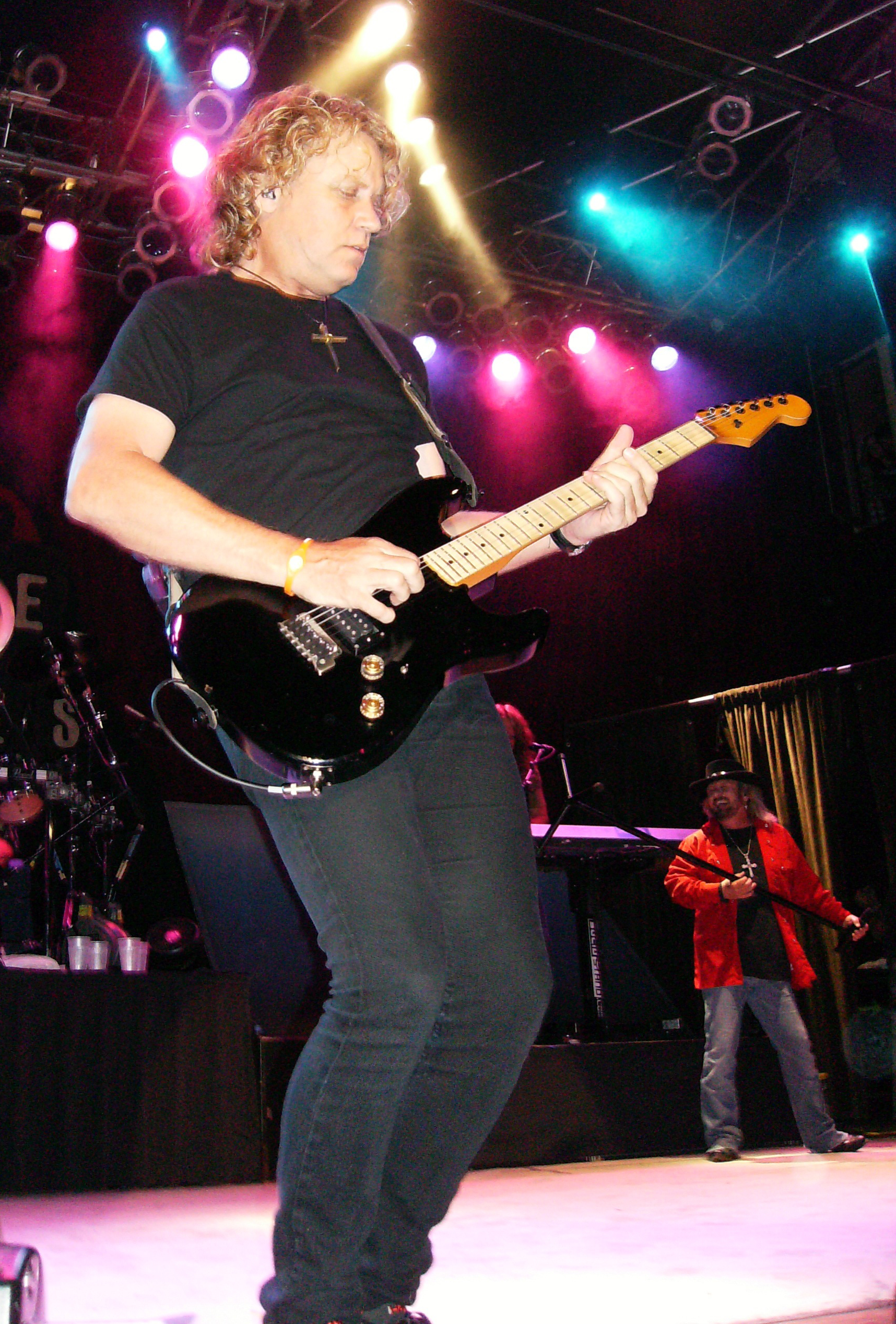 Danny Chauncey, guitarist for .38 Special at House of Blues, Myrtle Beach, SC, May 21, 2011.